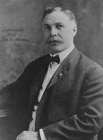 This image of Senator Thomas Taggart, Democrat of Indiana who was appointed in 1916 to fill the vacancy caused by the death of Senator Benjamin F. Shively.